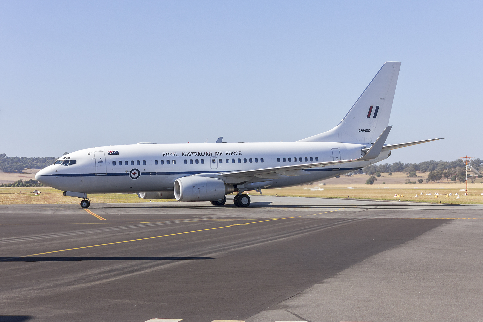 Royal Australian Air Force (A36-002) Boeing 737-7DT (BBJ) taxiing at Wagga Wagga Airport.